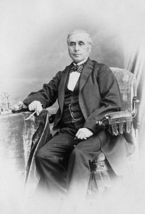 Photograph: Sir N. F. Belleau, Montreal, QC, 1865, by William Notman (1826-1891). Silver salts on paper mounted on paper - Albumen process - 8.5 x 5.6 cm